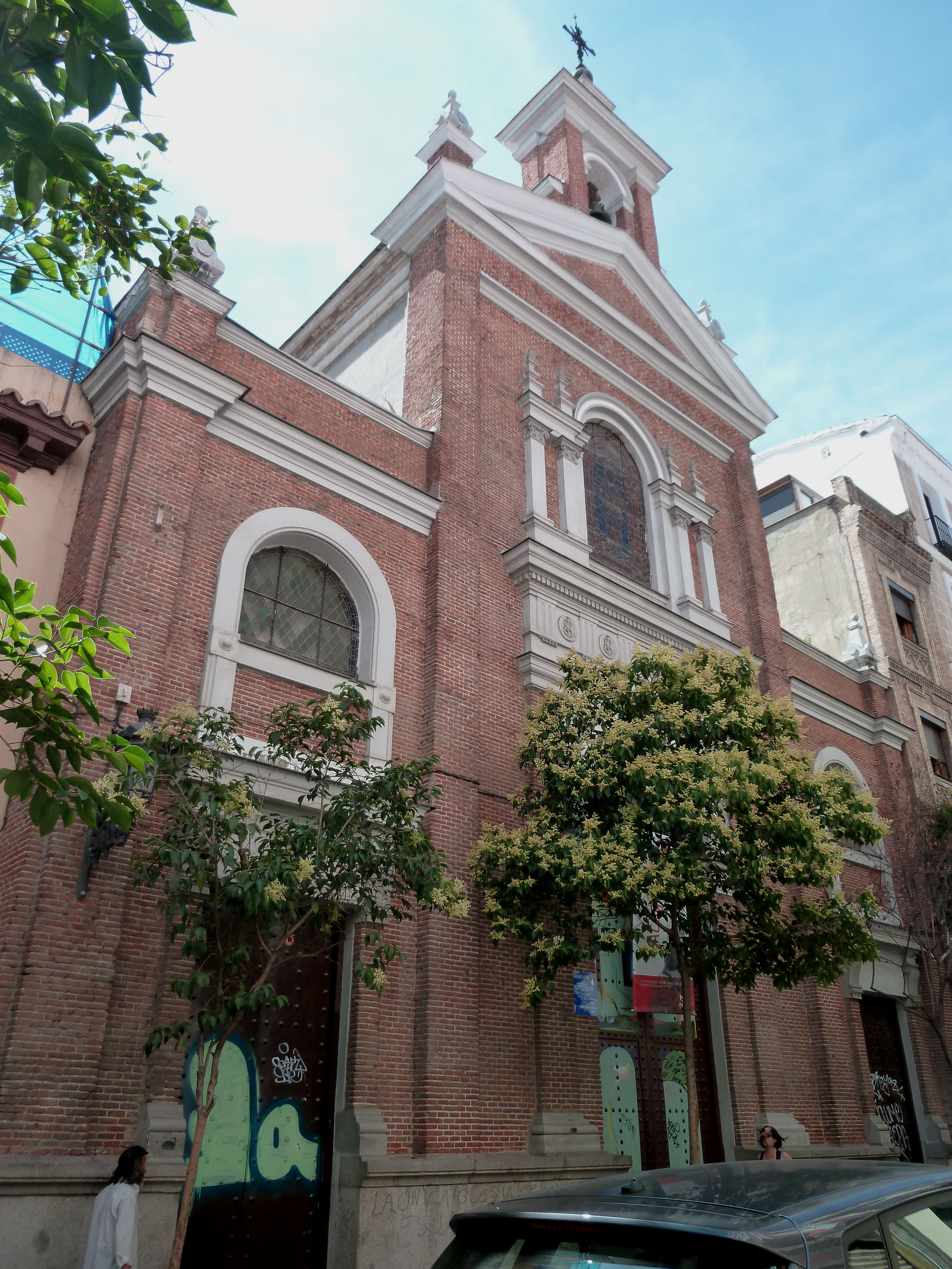 Façade of the Church of Santo Cristo del Olivar in Madrid (Spain).